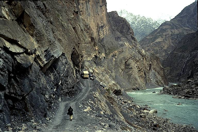 Along the Dushanbe–Khorugh highway